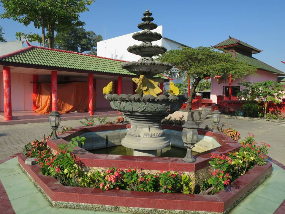 Chinese temple in Dili